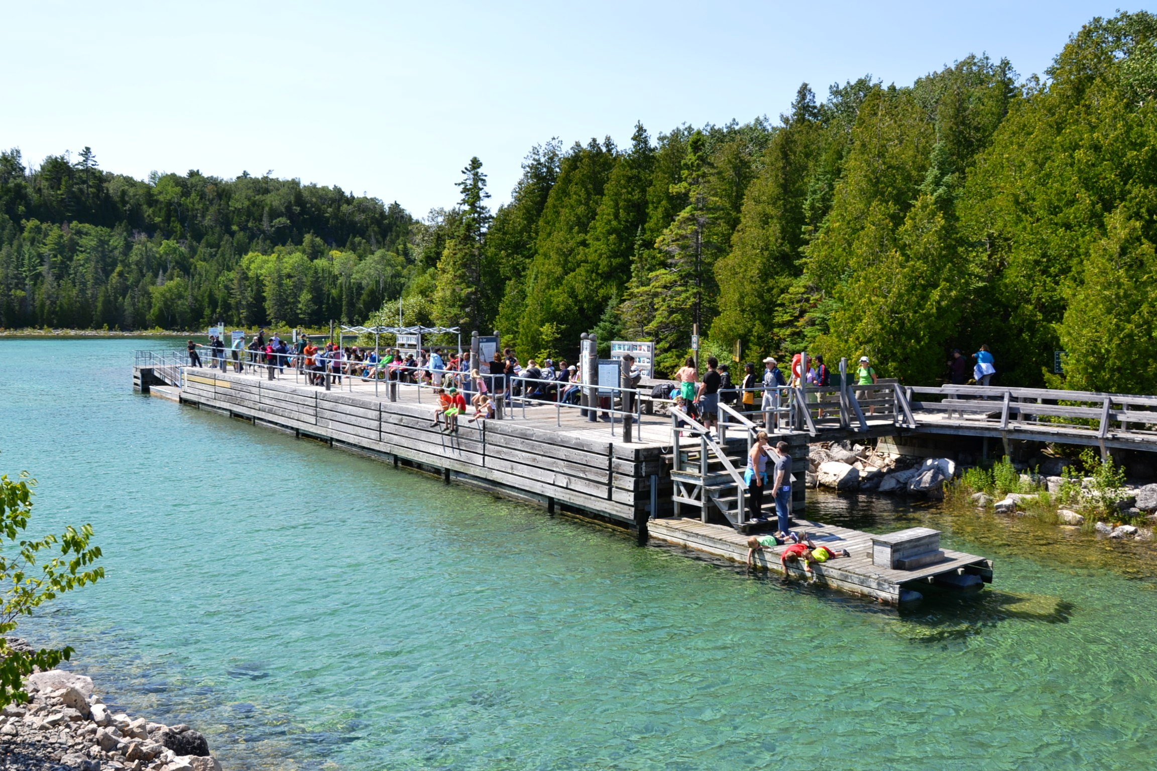 Flowerpot Island - harbour